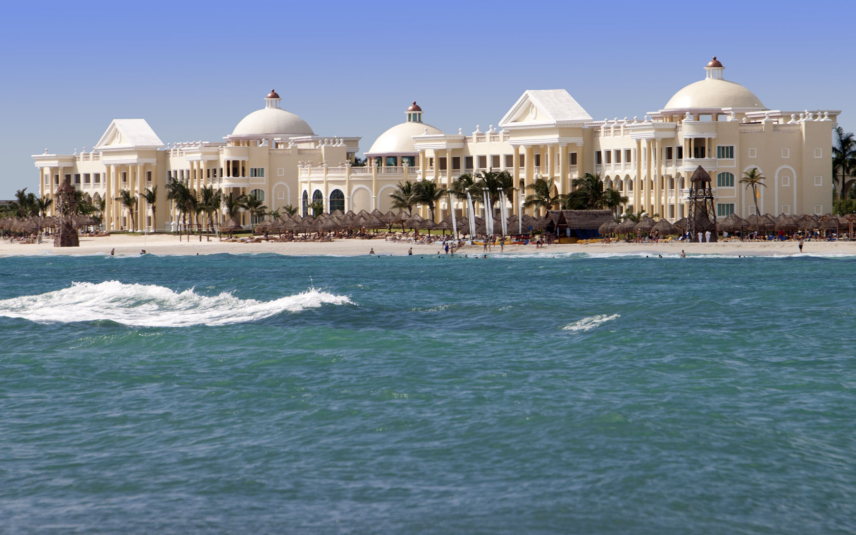 Iberostar Grand Hotel Paraiso from Ocean, Quinta Roo, Mexico